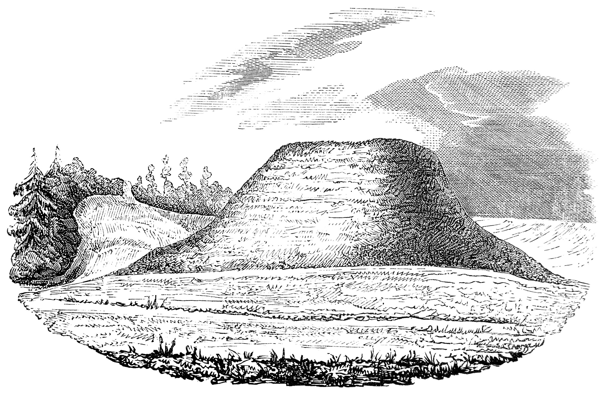 Alexandrova hill near Pereslavl-Zalessky before the archaeological works of 1853 year. A rich archaeological memorial as it looked before massive destruction with early and clumsy excavations. The place was completely changed during the archaeological works.